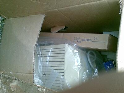 A computer screen in a container for bulky waste